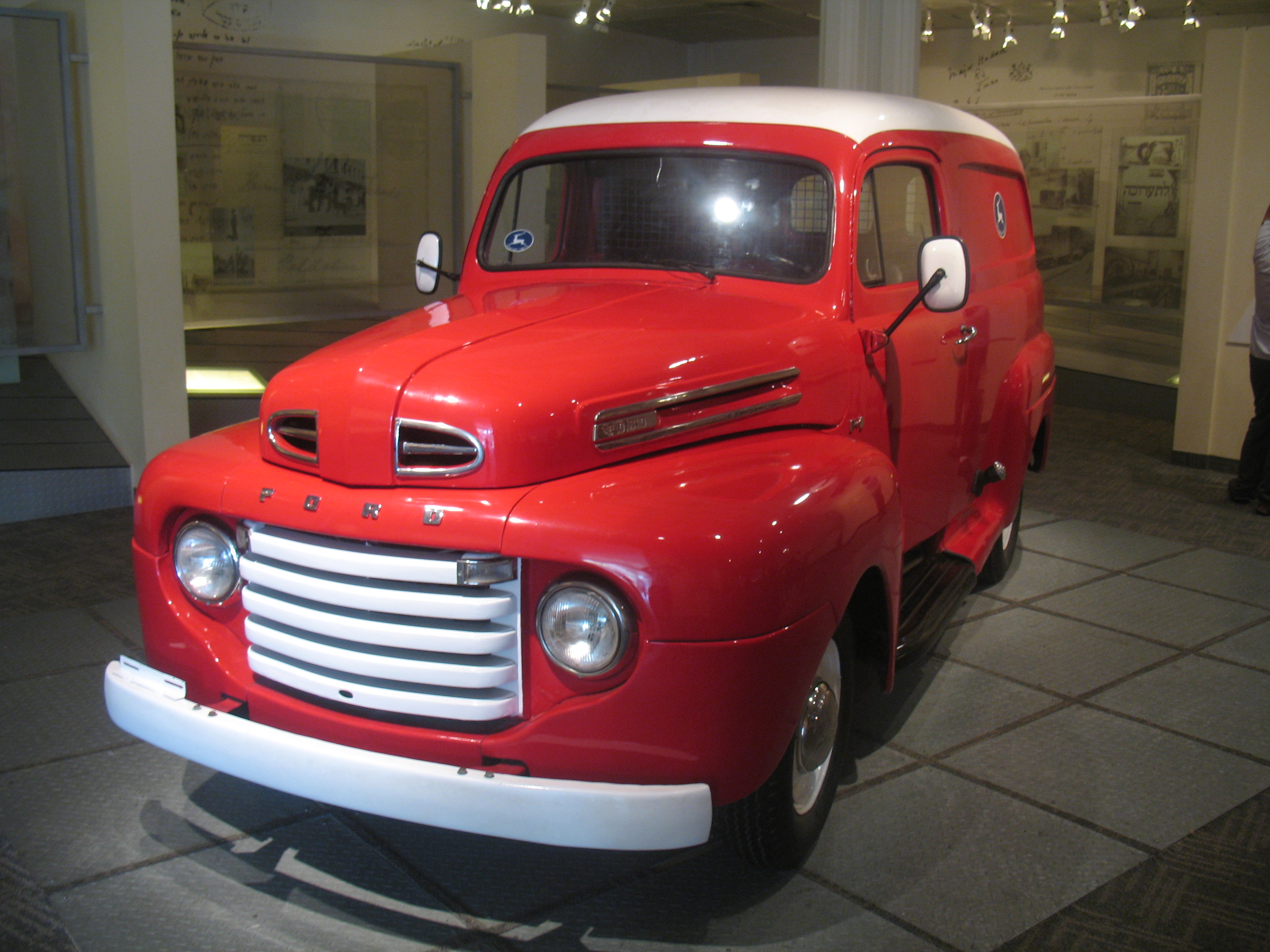 Ford F-1 truck used by Israeli Postal Service in 1948-1949 On display at Erez Israel Museum, Postal Museum